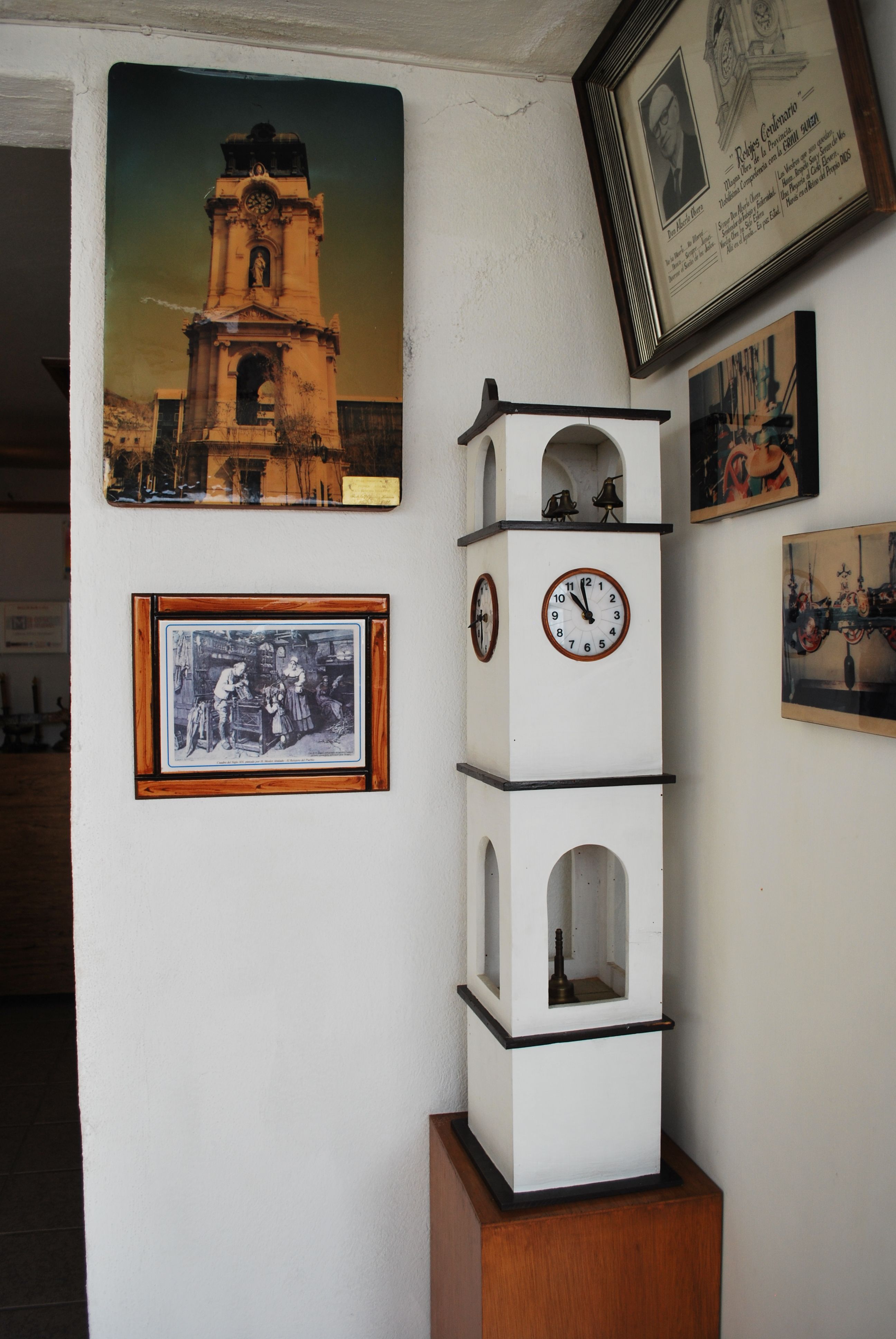 Display related to the clock tower in Pachuca at the Clock Museum in Zacatlán, Puebla, Mexico